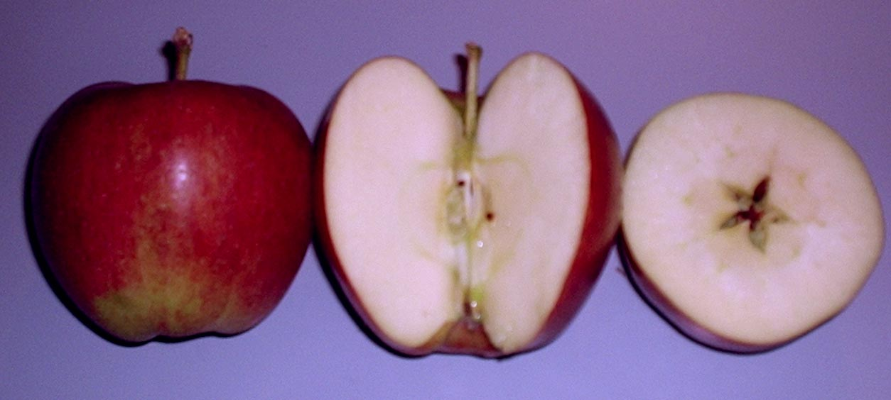 Picture of Braeburn apples, each apple approximately 10–12 cm in diameter. Photograph taken with an Olympus Camedia C-150 camera, and edited with Adobe Photoshop 7.